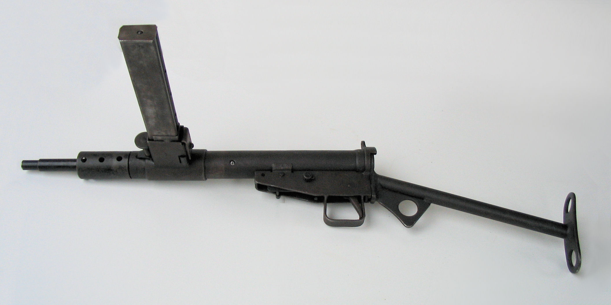 Sten Mk II submachine gun Aparat/Camera: Canon PowerShot A75